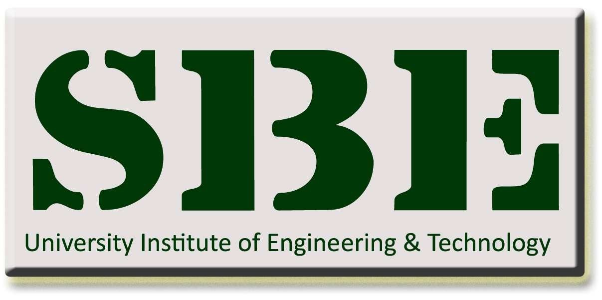 logo of SBE UIET